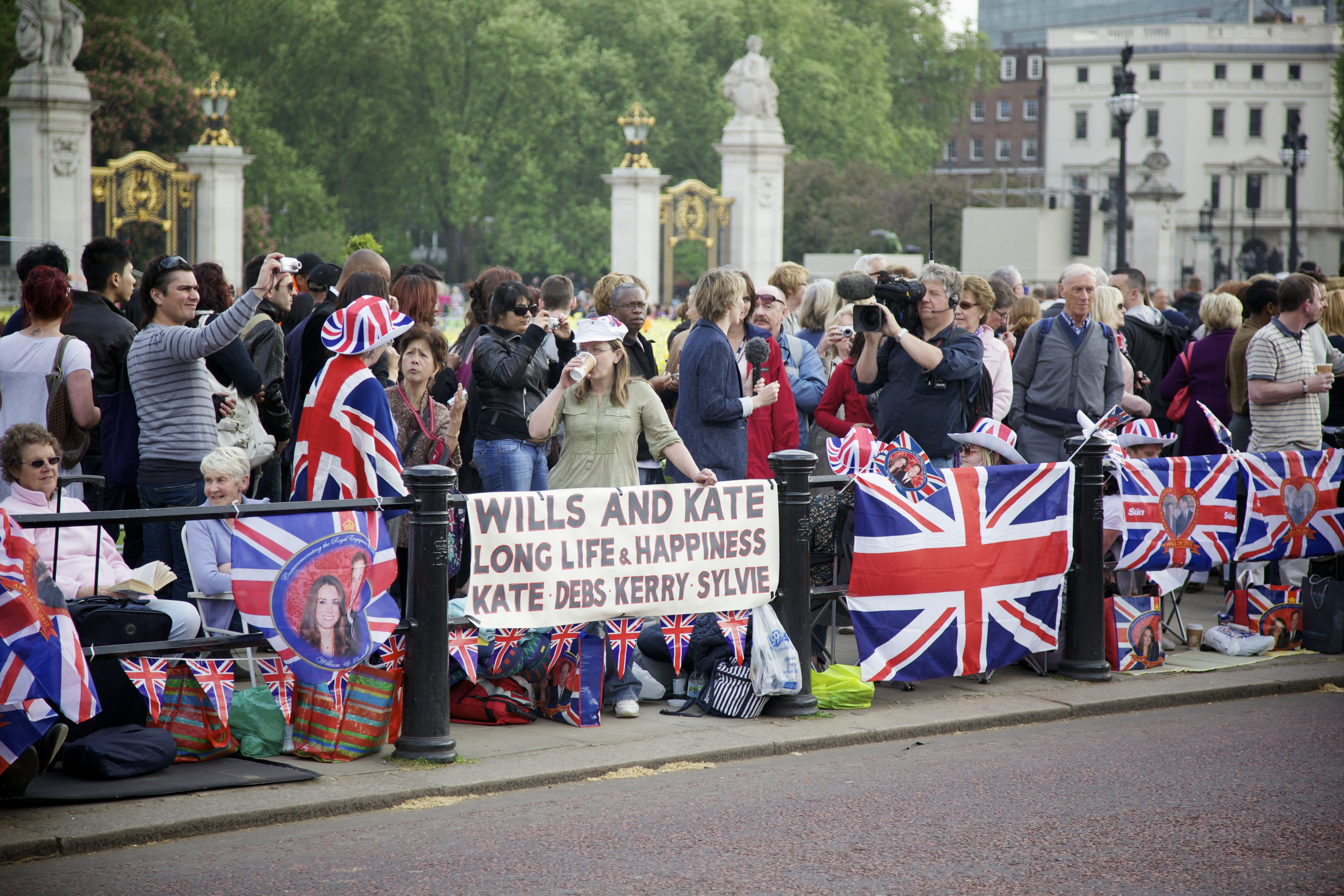 Wedding of Prince William of Wales and Kate Middleton